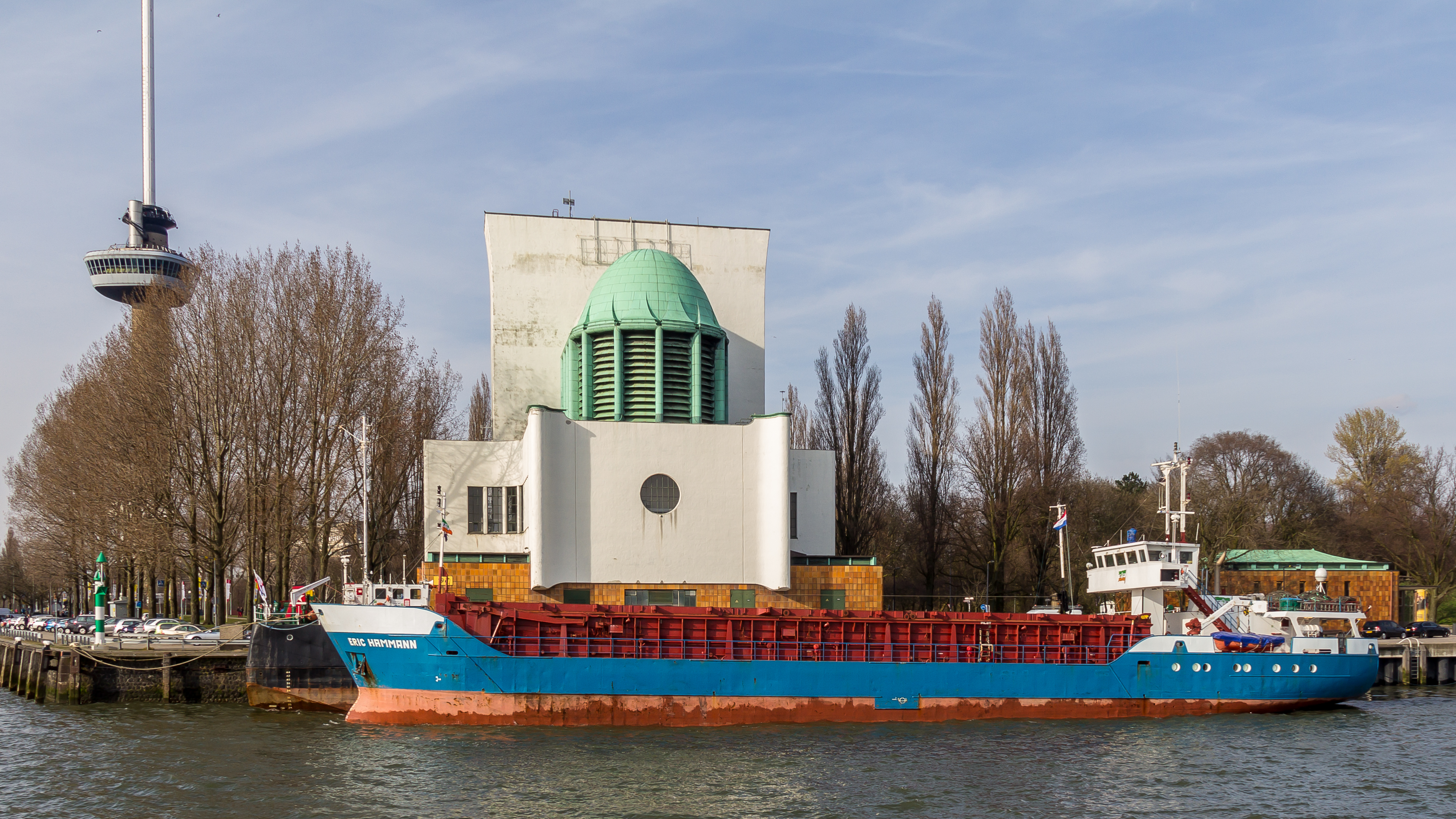 General cargo ship Eric Hammann (IMO 9011985) moored in front of the northern ventilation building of the Maastunnel, Rotterdam